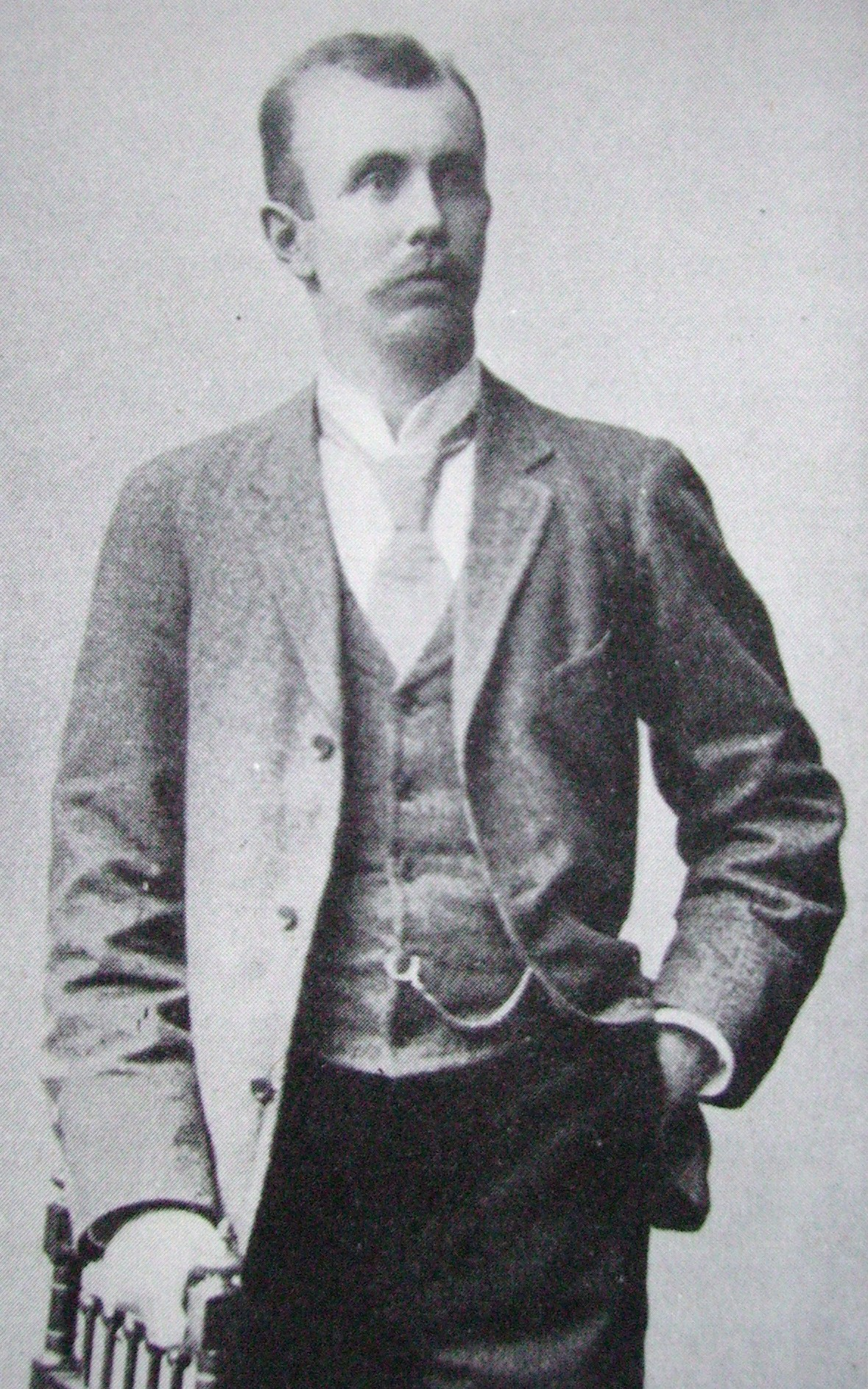 Picture of Otto von Zweigbergk, Swedish journalist and politician